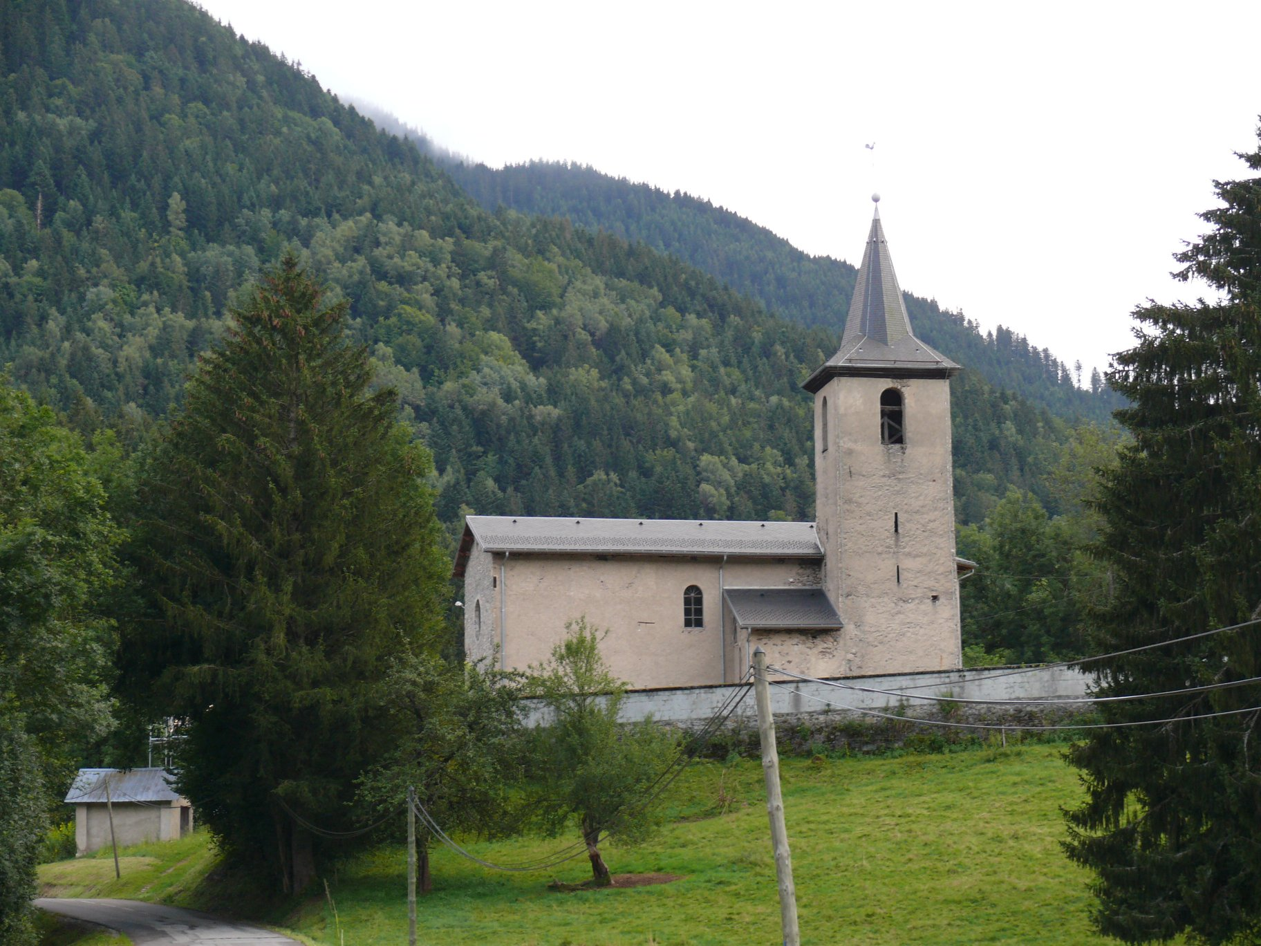 Saint-Nicolas' church of Le Pontet (Savoie, Rhône-Alpes, France).